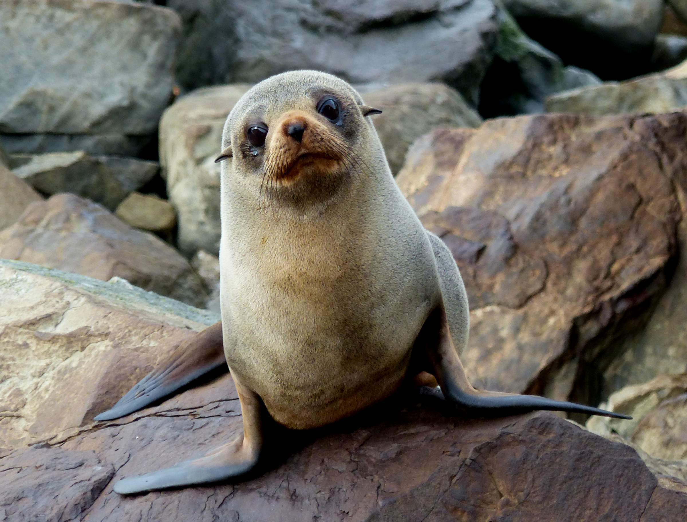 Kekeno (Arctocephalus forsteri) are members of the Otariidae family of pinnipeds, fin-footed carnivorous marine mammals. They are distinguished by visible external ears and hind flippers which rotate forward. This pointy-nosed seal has long pale whiskers and a body covered with two layers of fur. Their coat is dark grey-brown on the back, and lighter below; when wet kekeno look almost black. In some animals the longer upper hairs have white tips which give the animal a silvery appearance. In New Zealand fur seals are found on rocky shores around the mainland, Chatham Islands and the sub-Antarctic islands (including Macquarie Island). Further they are found in South Australia, Western Australia and Tasmania. They are the most common seals.